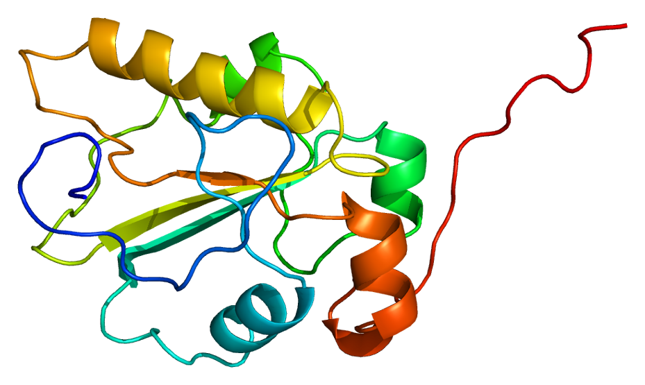 Structure of the CDC25A protein. Based on PyMOL rendering of PDB 1c25.